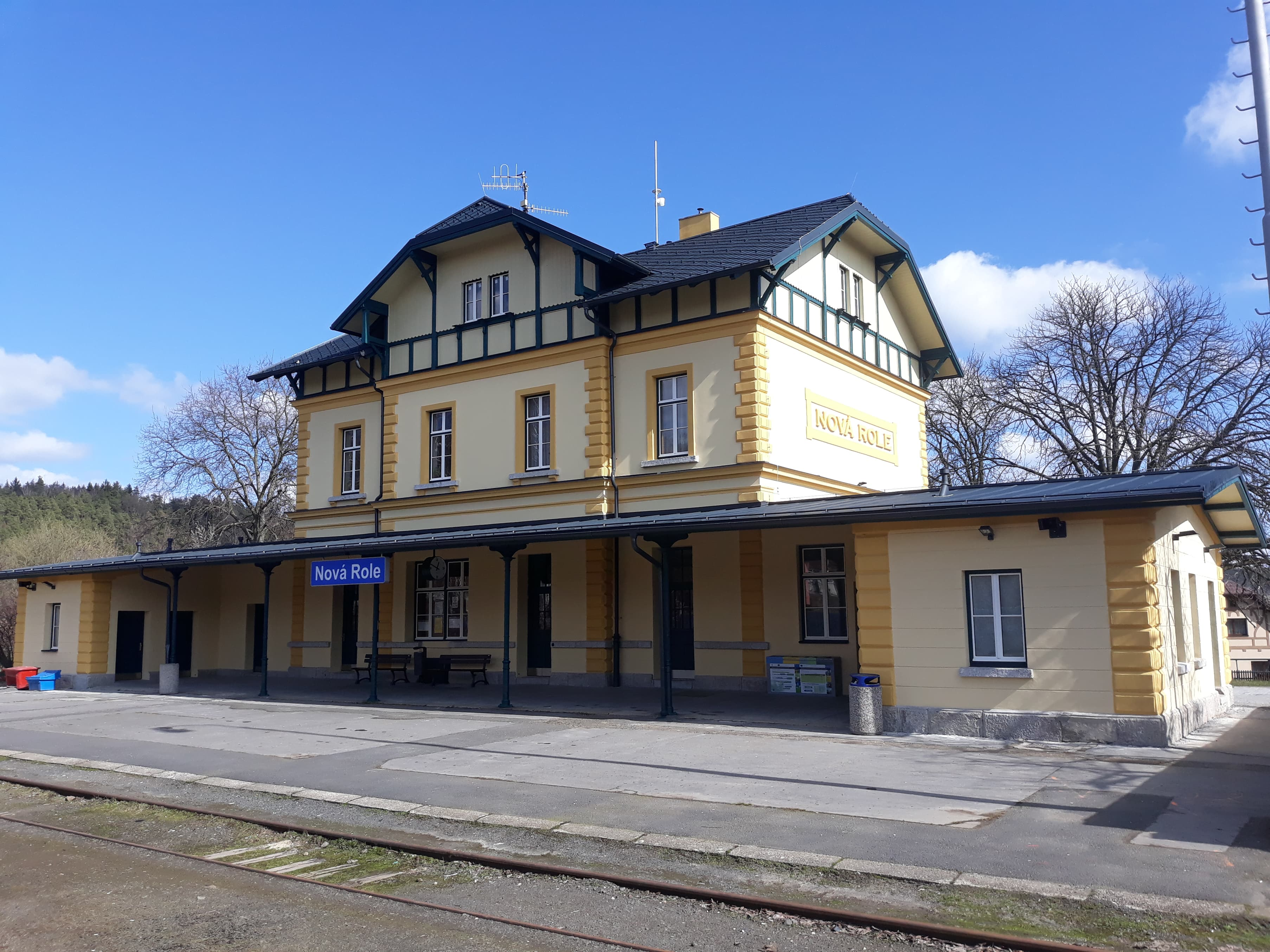 Railway station in Nová Role. The building which has his origin in the late 19th century and in 2019 was reconstructed.